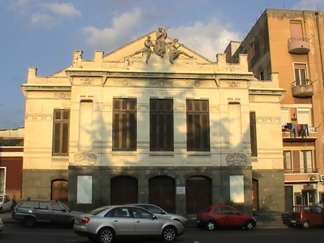 Adrano - Vincenzo Bellini Theater